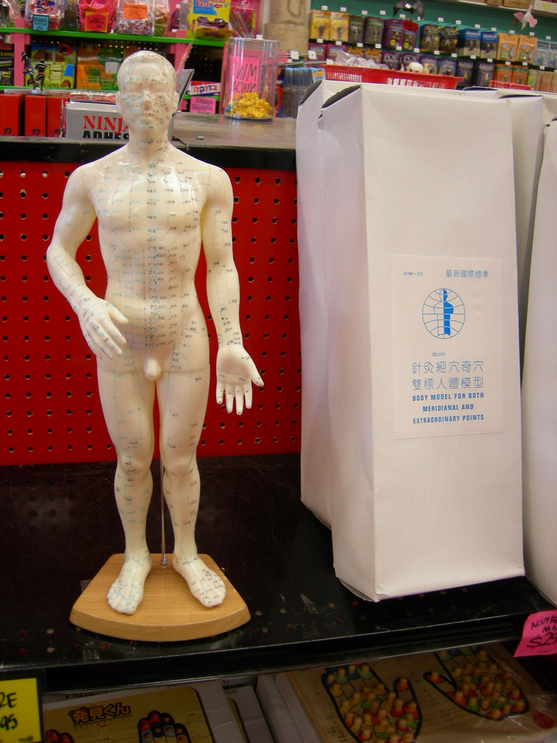 Acupuncture doll. Archie McPhee store, Ballard, Seattle, Washington.